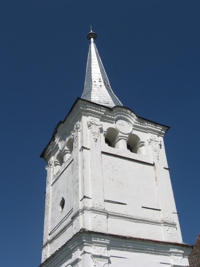 Covasna County ,Étfalva -Zoltán, Refomed church